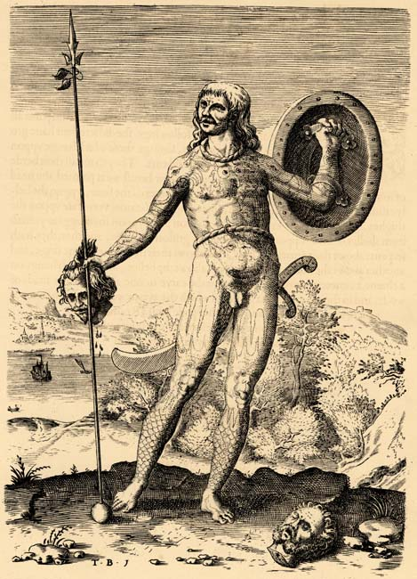 “The Trvve Picture of One Picte.” Theodor de Bry’s engraving of a Pict (a member of an ancient Celtic people from Scotland), published in Thomas Hariot’s 1588 book "A Briefe and True Report of the New Found Land of Virginia".